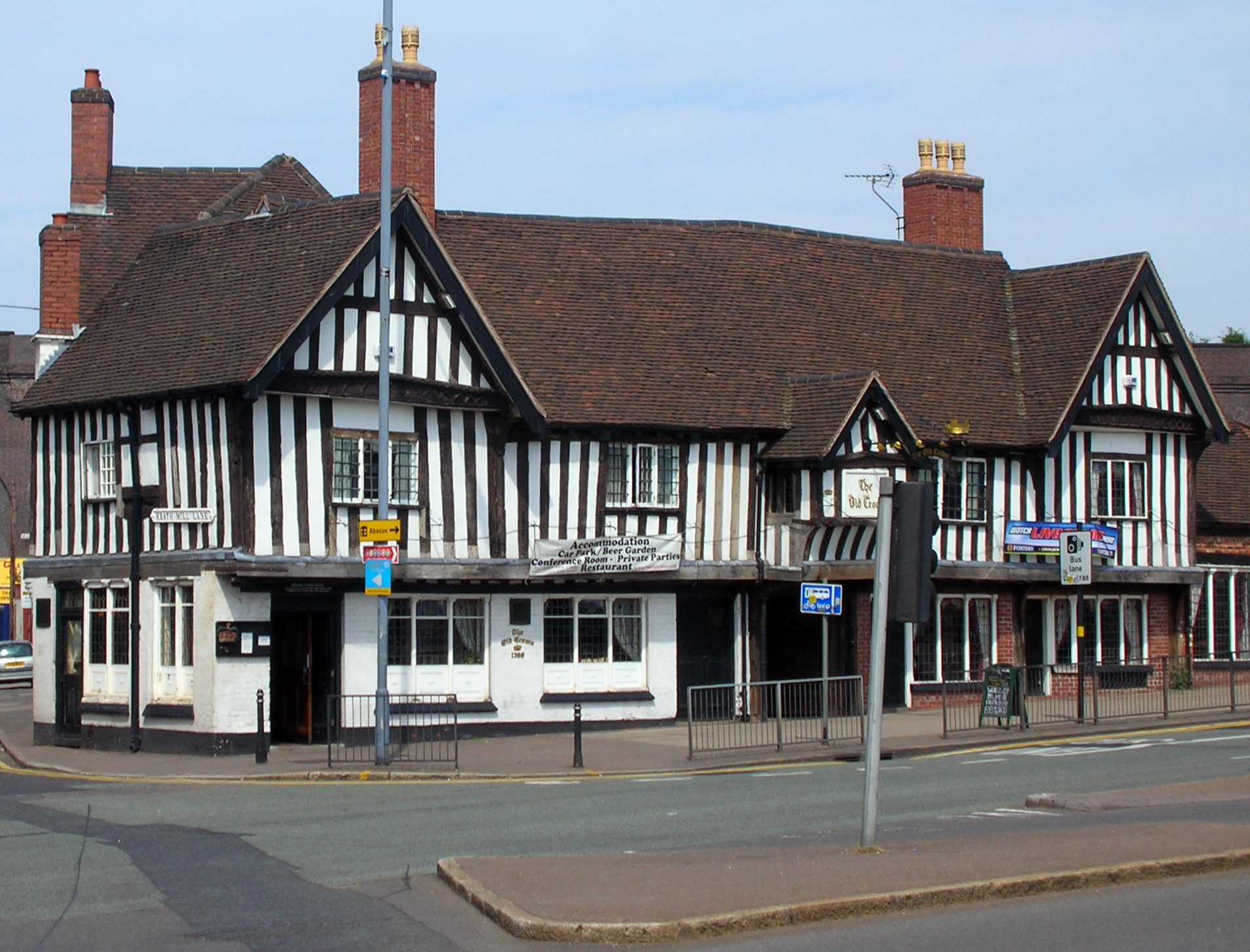 The Old Crown, Birmingham, England. Crop of